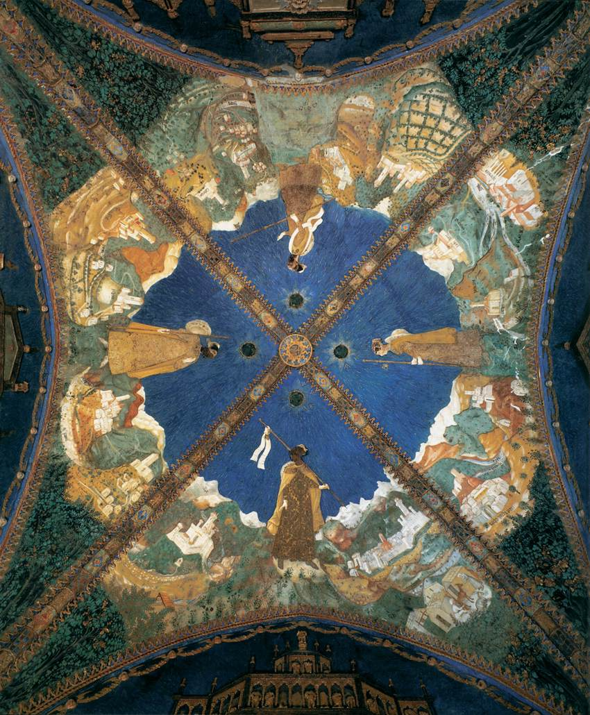 Bianca Pellegrini's Journey to the Castles of Pier Maria Rossi